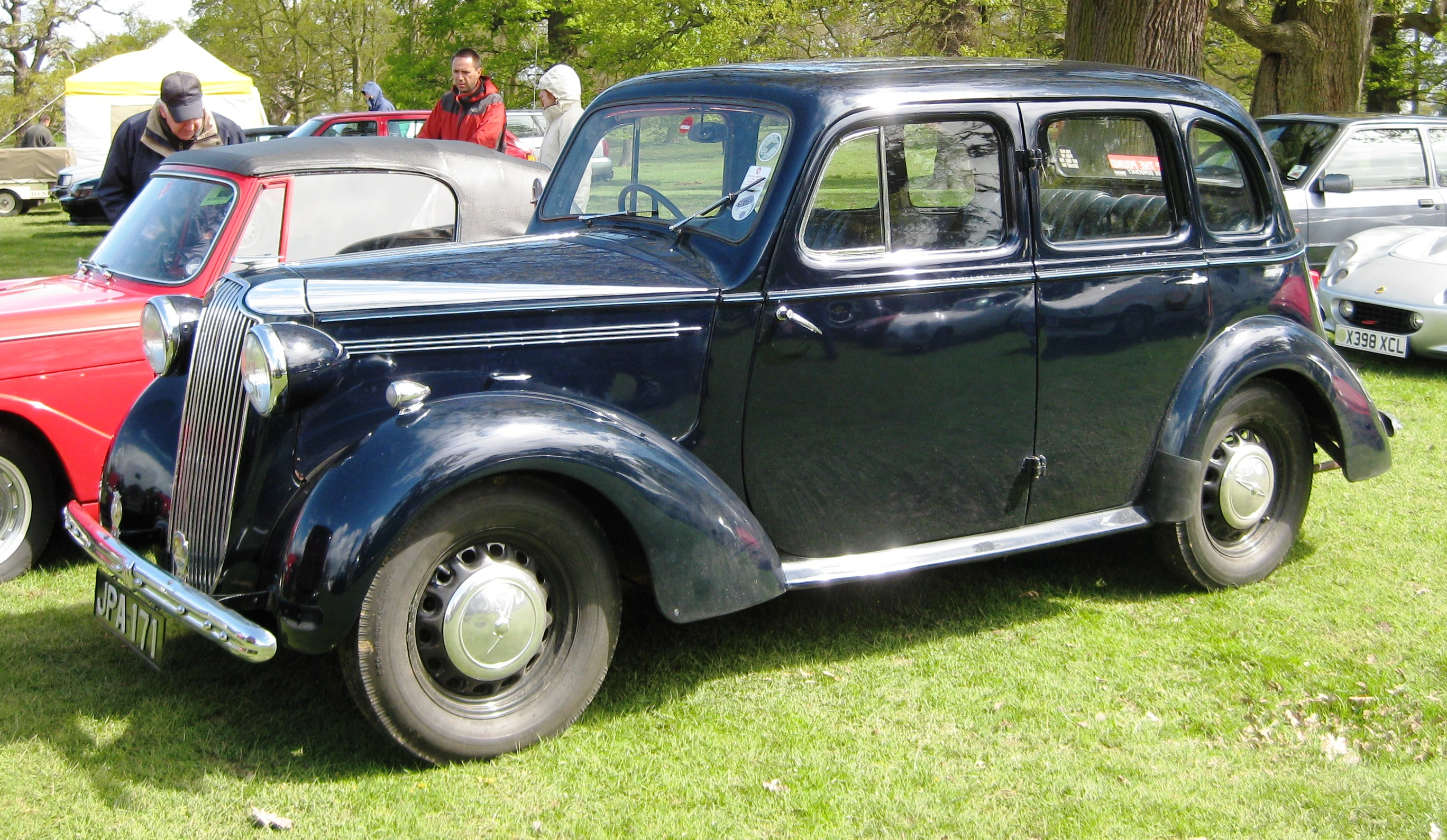 Vauxhall 12 six-light saloon at classic car show in Bedfordshire